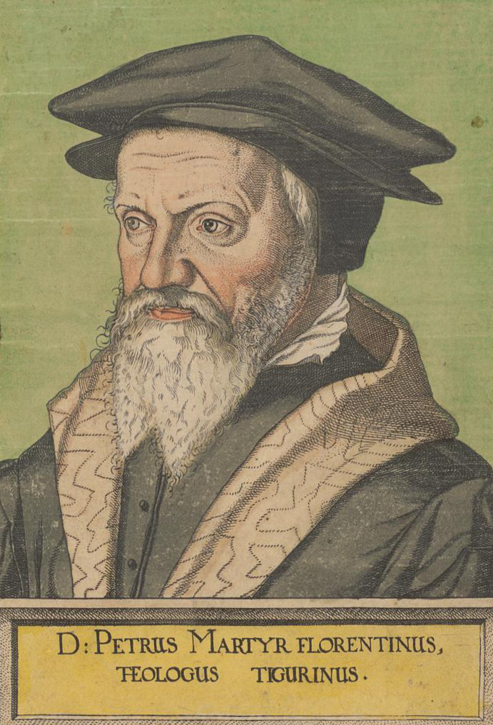 Portrait of Peter Martyr Vermigli